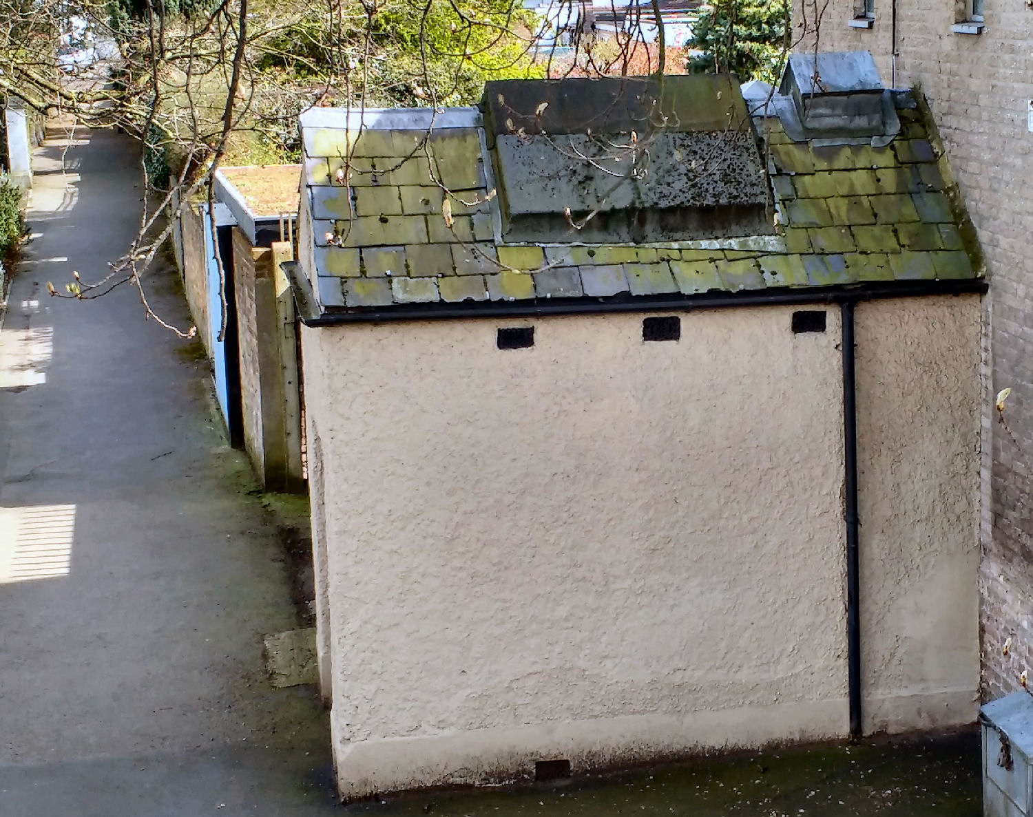 The mortuary next to Kew Bridge, London